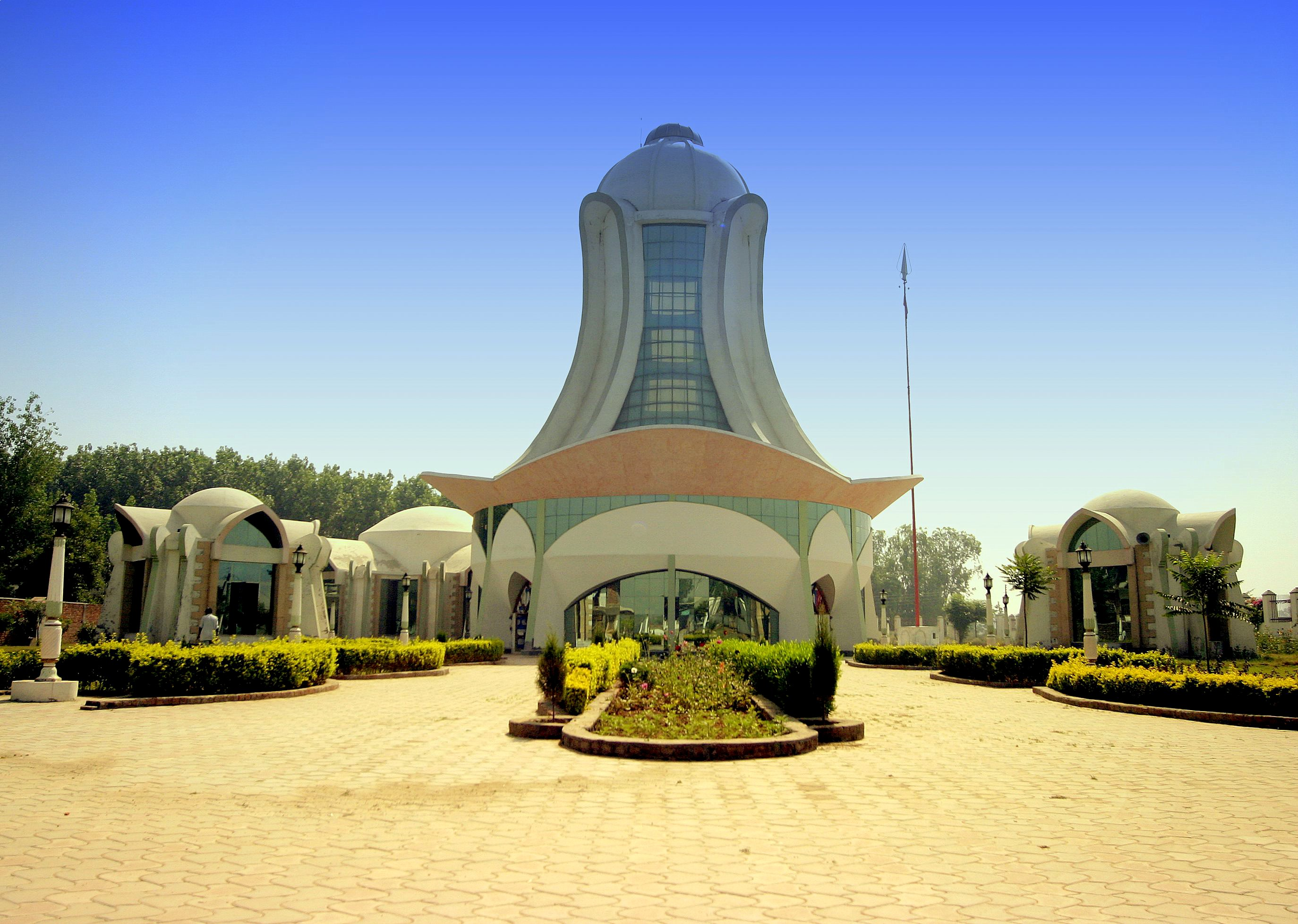 Place of international worship